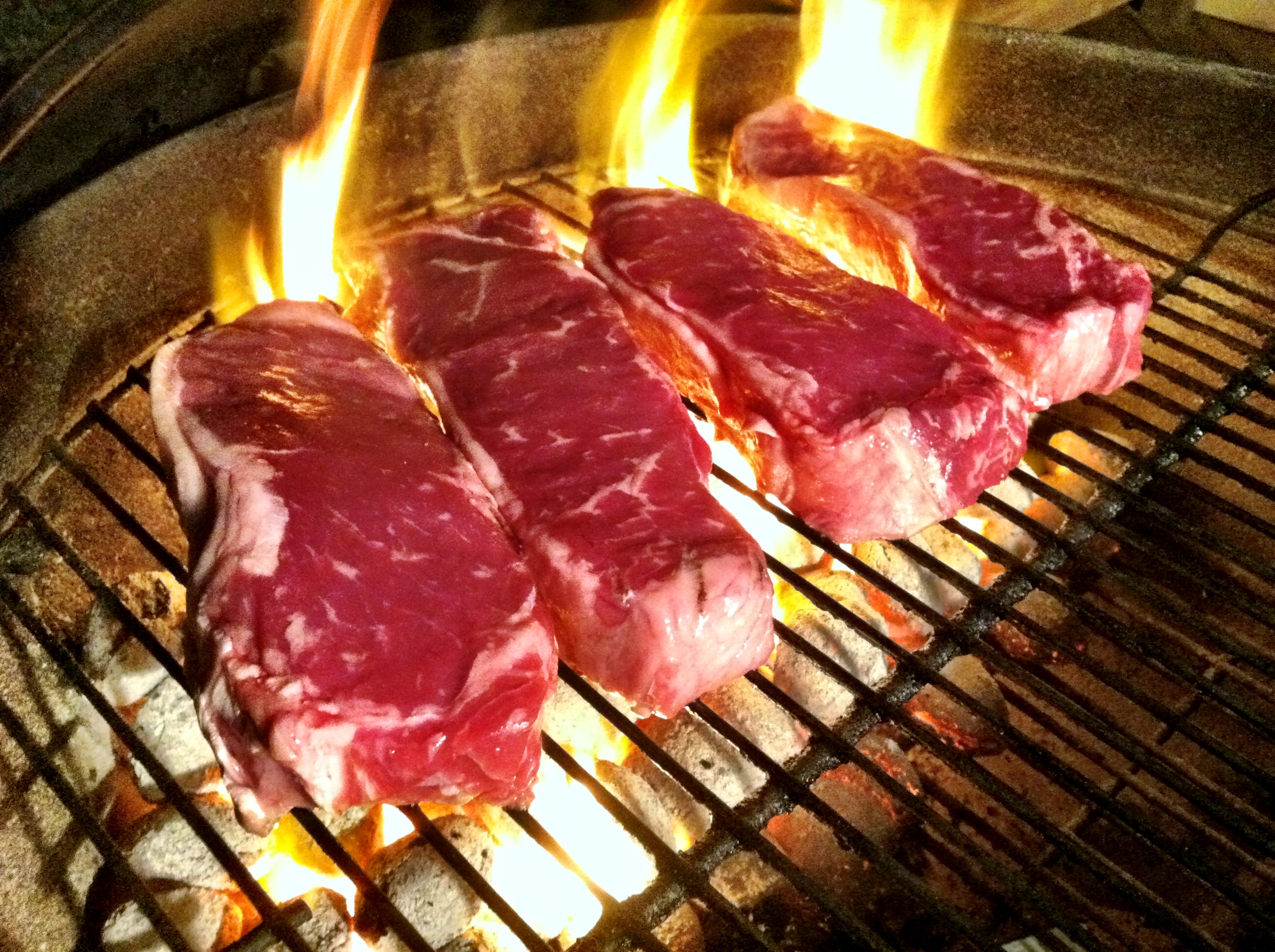 365 Days Project 188/365: Saturday Night Grilling